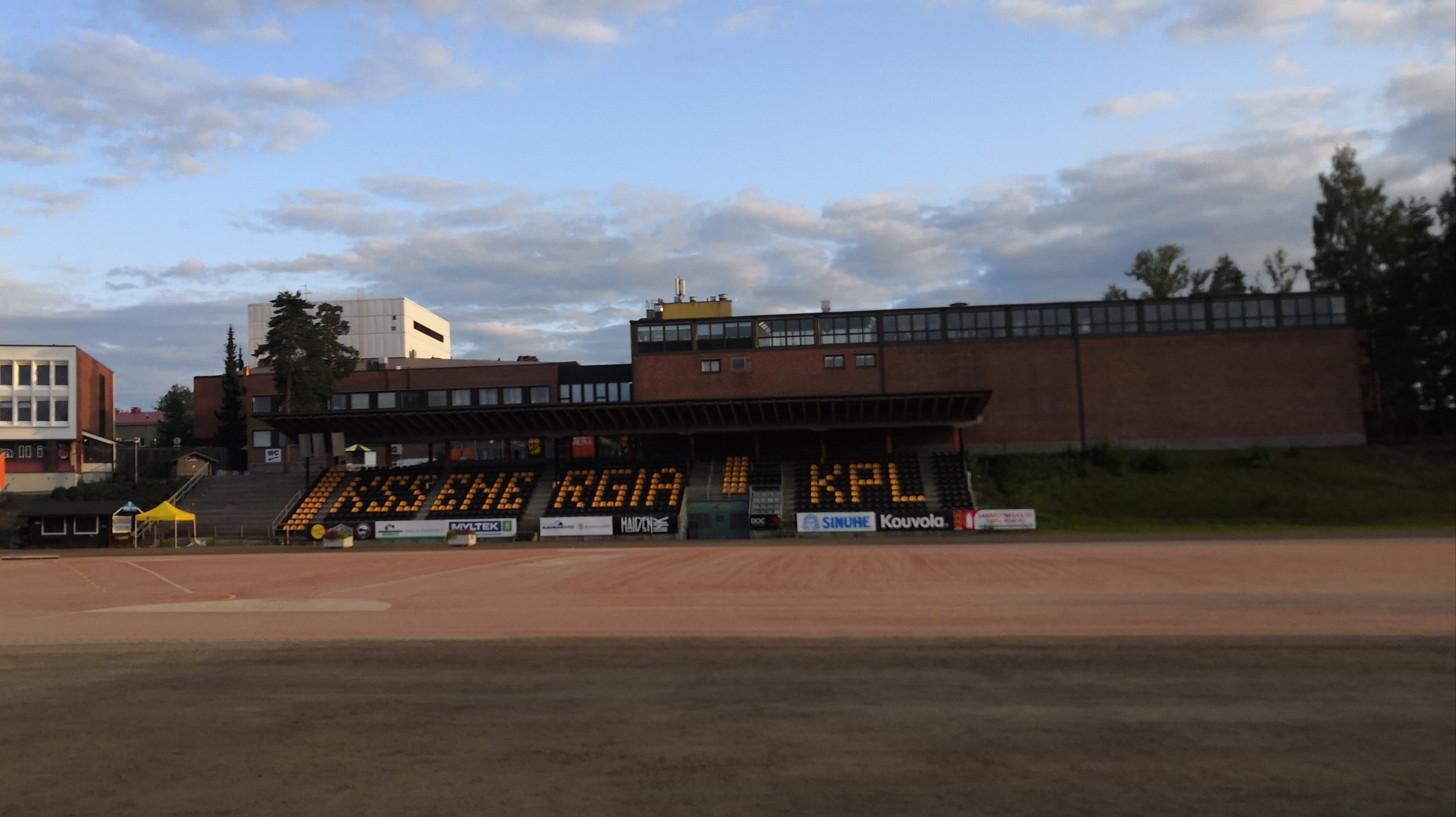 Kouvolan kuntotalo urheilupuiston suunnasta (elokuu 2019)